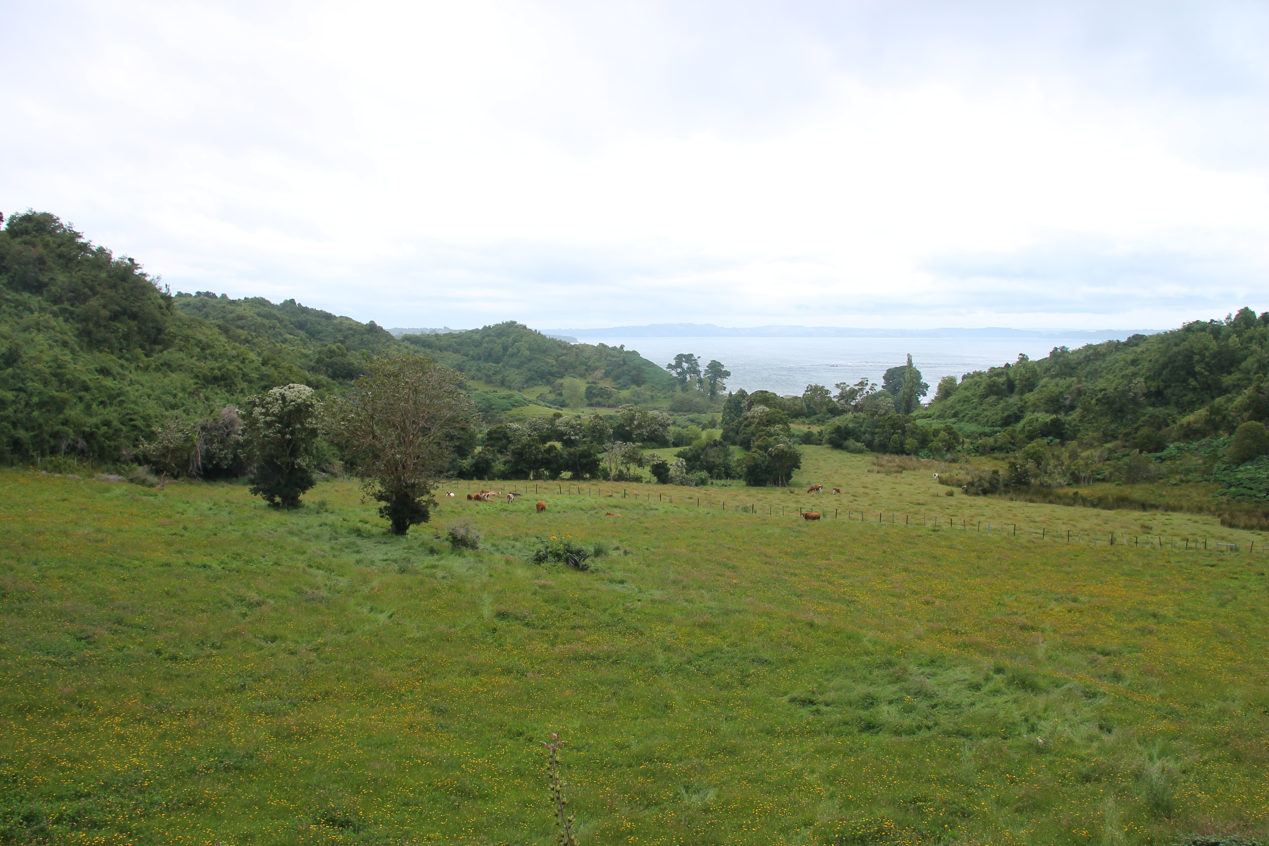 Quinchao, Quinchao Island